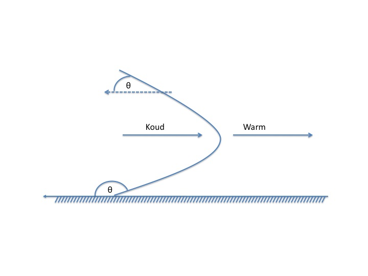 Weather Front